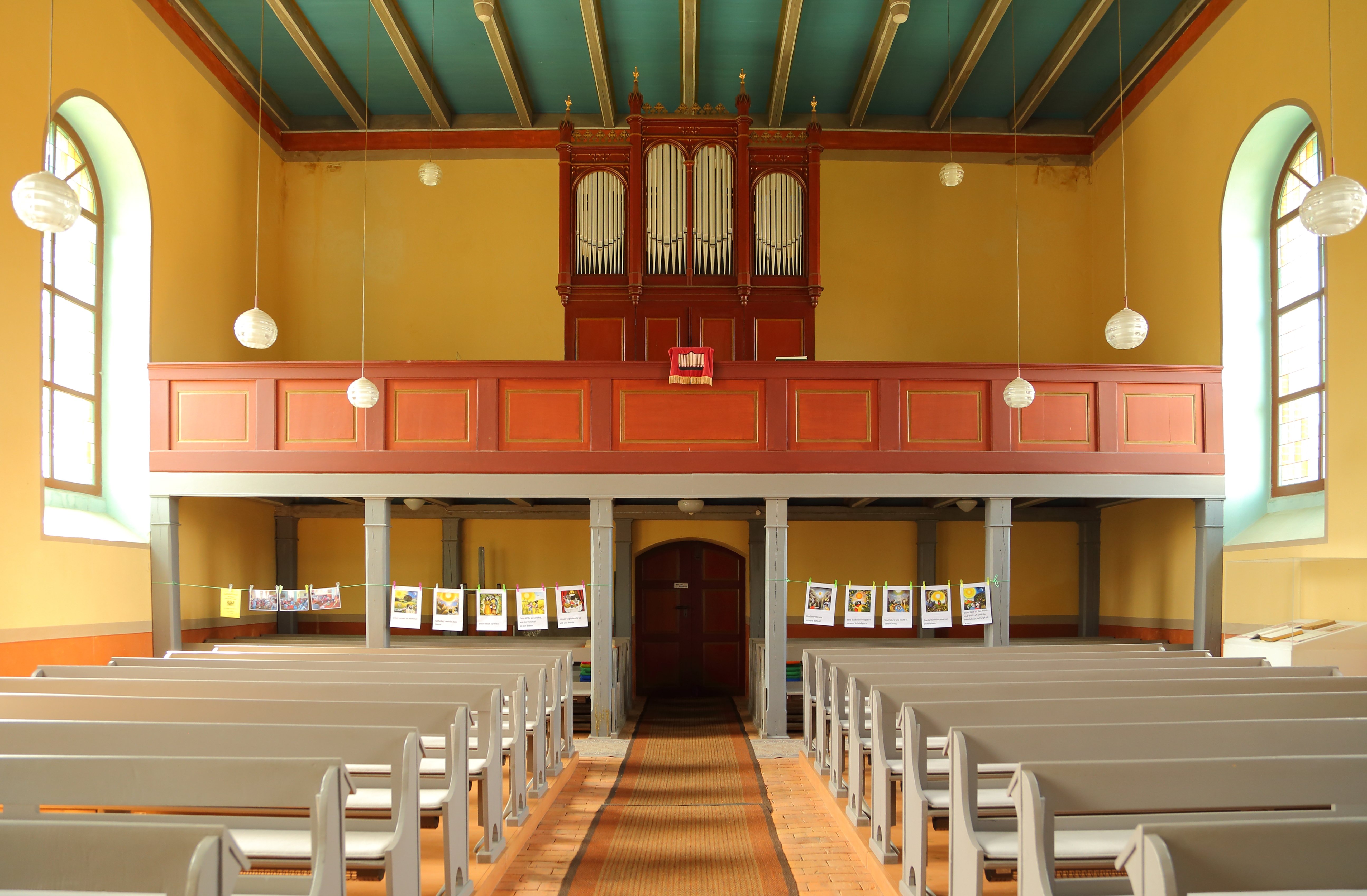 Innenansicht mit Blick zur Orgelempore der Evangelischen Dorfkirche von Groß Leuthen, Ortsteil der Gemeinde Märkische Heide, Landkreis Dahme-Spreewald, Brandenburg, Deutschland. Die Kirche gehört zum Sprengel Groß Leuthen innerhalb des Evangelischen Kirchenkreises Niederlausitz.